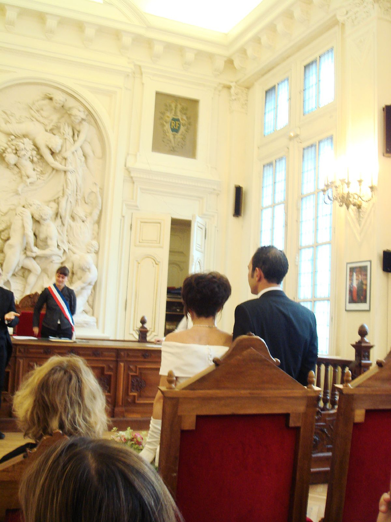 A wedding in the 10th arrondissement of Paris with the mayor officiating. In the background : The Fraternity by Jules Dalou.